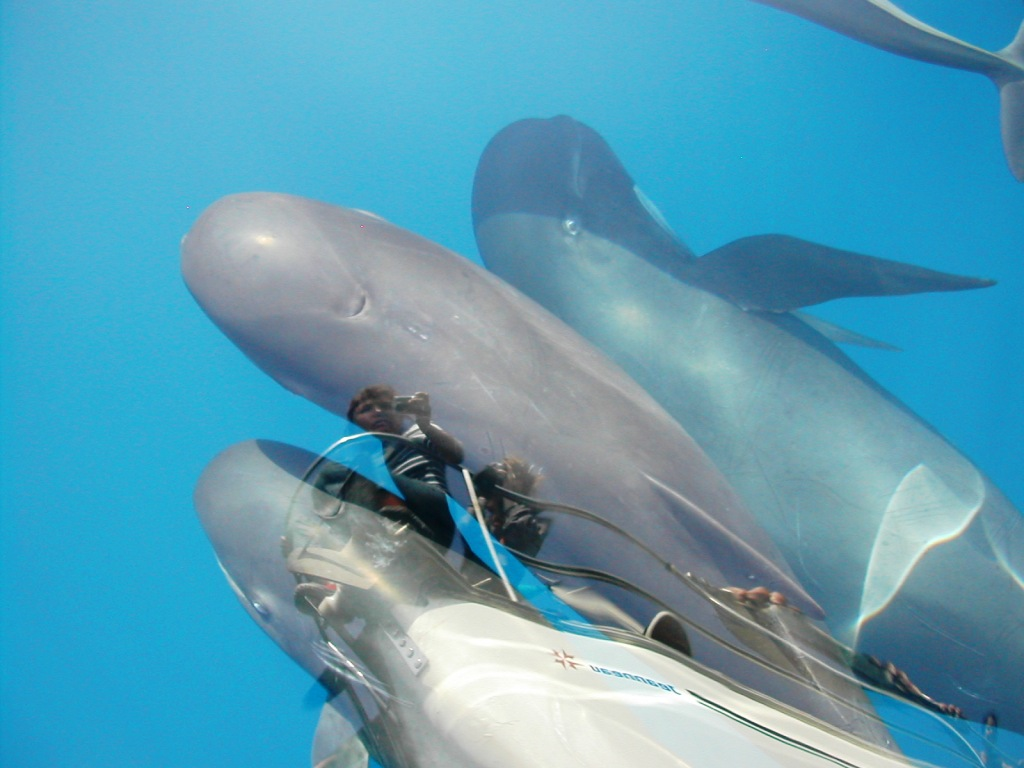 Pilot whales pictures during a scientific expedition in Mediterranean Sea